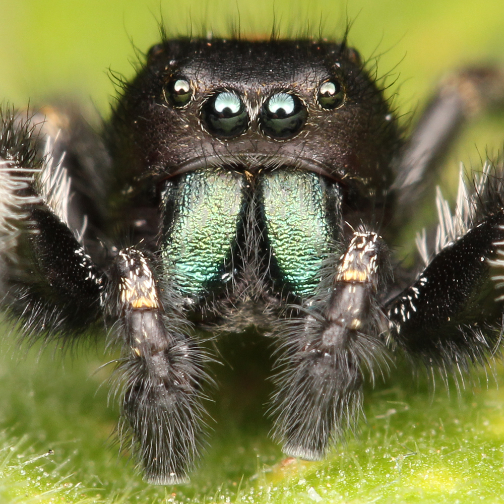 Adult male Phidippus johnsoni jumping spider. Found at China Camp State Park, California.